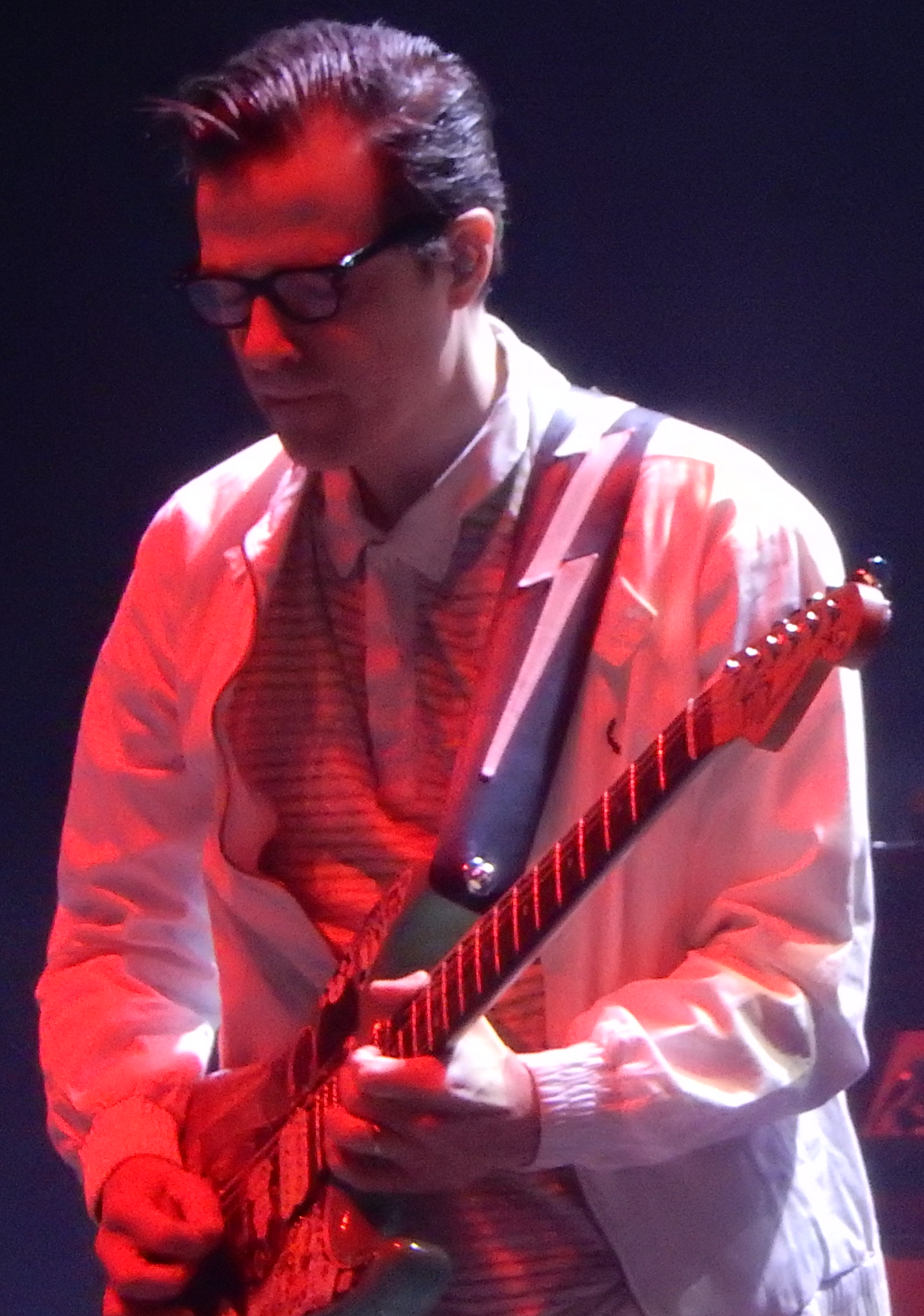 Weezer, Brixton Academy, London